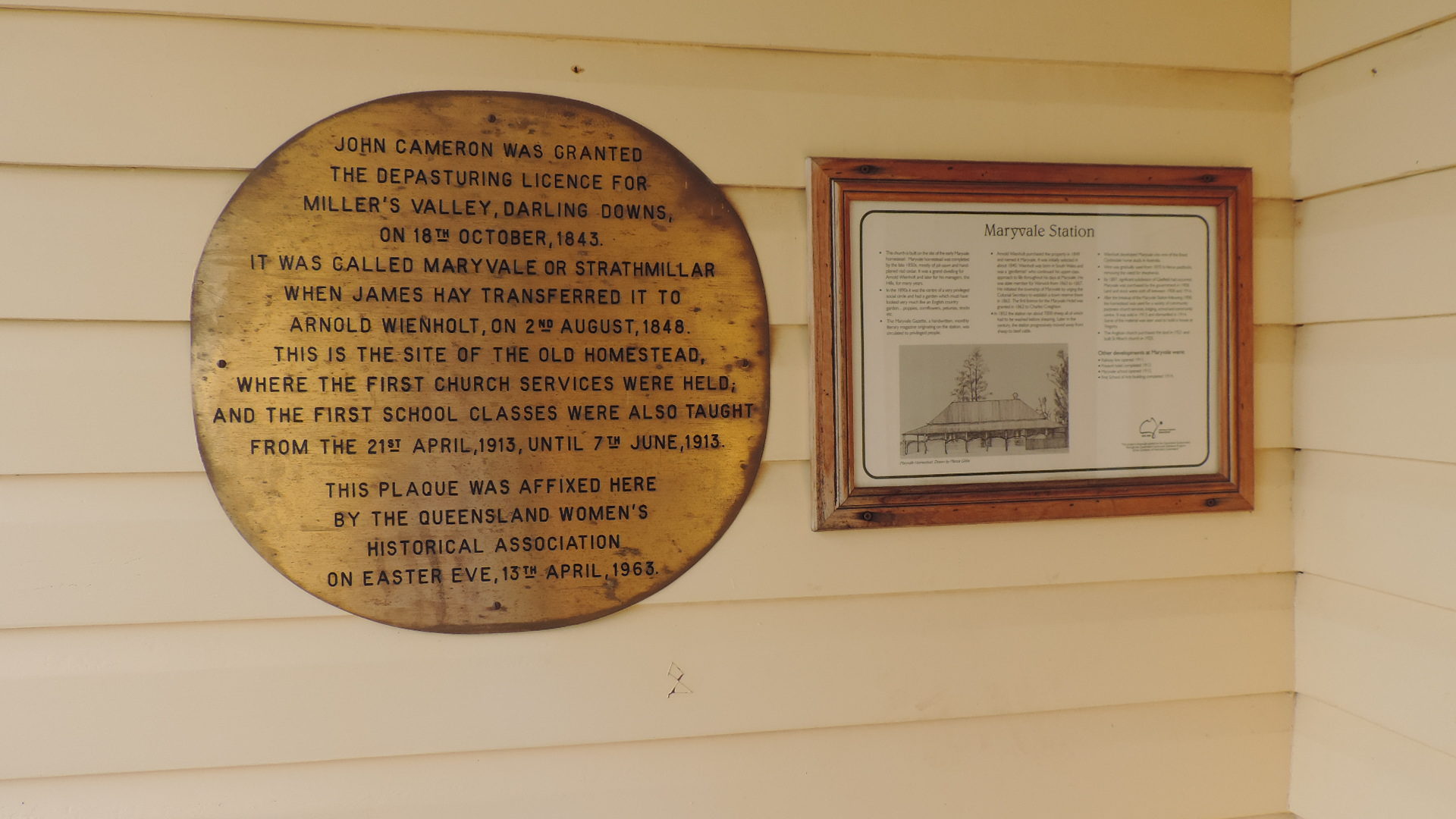 Information sign, St Alban's Anglican Church, Maryvale, 2015